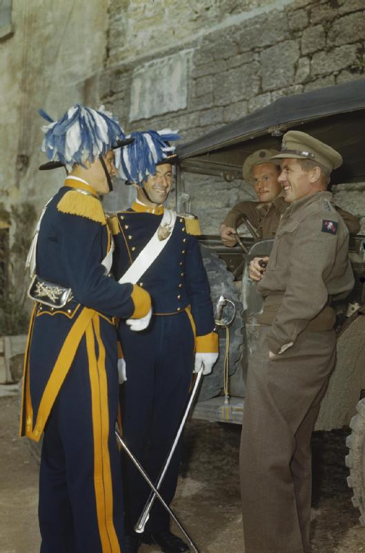 The Inauguration of New Regents For San Marino, Italy, 1 October 1944 Two of the Regents' personal guard with an officer of the Army Film and Photographic Unit after the ceremony in which two Regents were inaugurated to rule for six months.